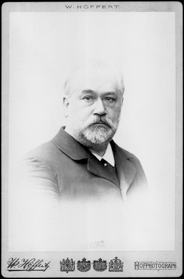 German dirigent Julius Kniese (1848–1905)